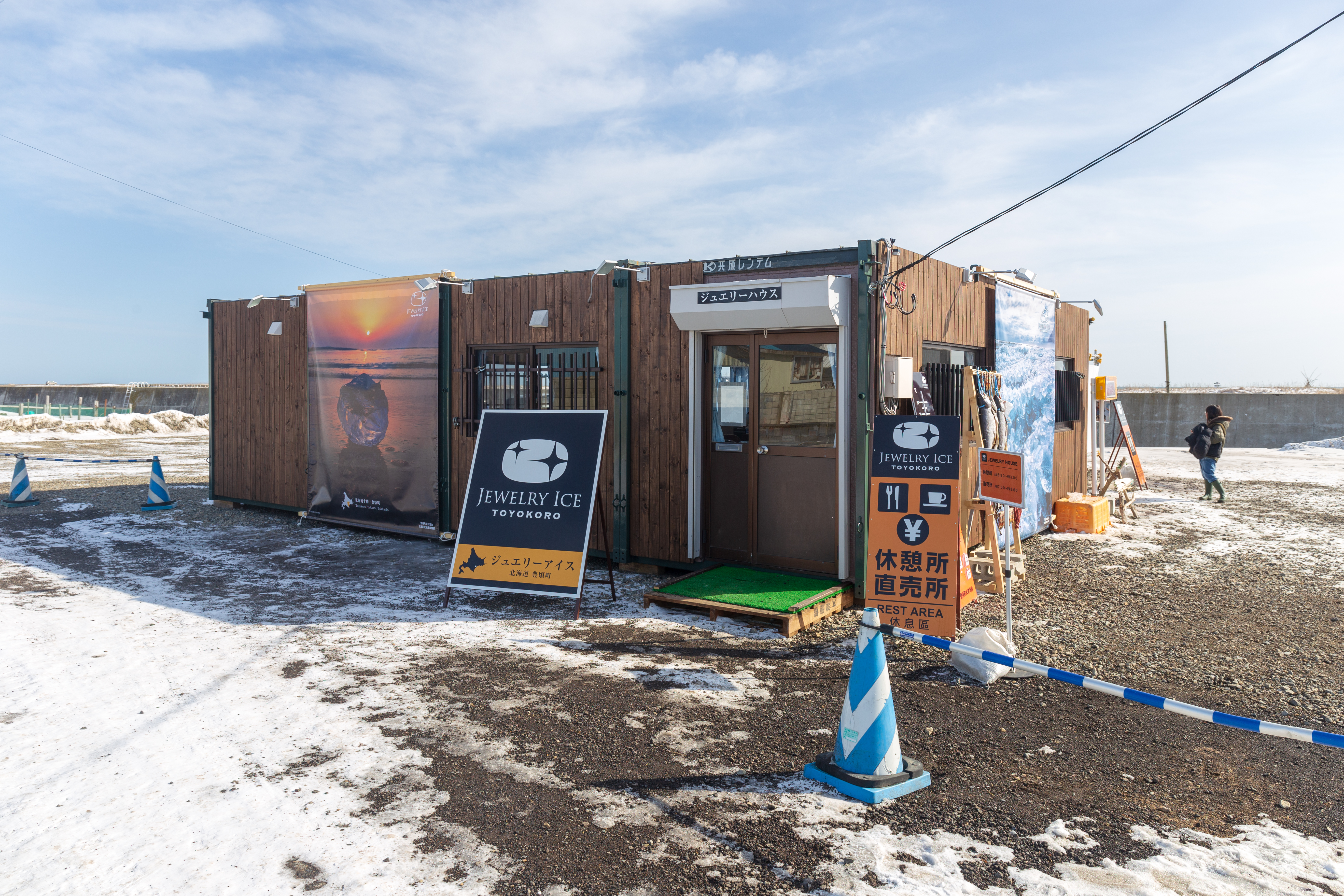 The Jewelry House rest place on the Otsu Coast in Toyokoro Town, Hokkaido, Japan. The house is open in winter to visitors to the coast, where the "Jewelry Ice" blocks are observed.